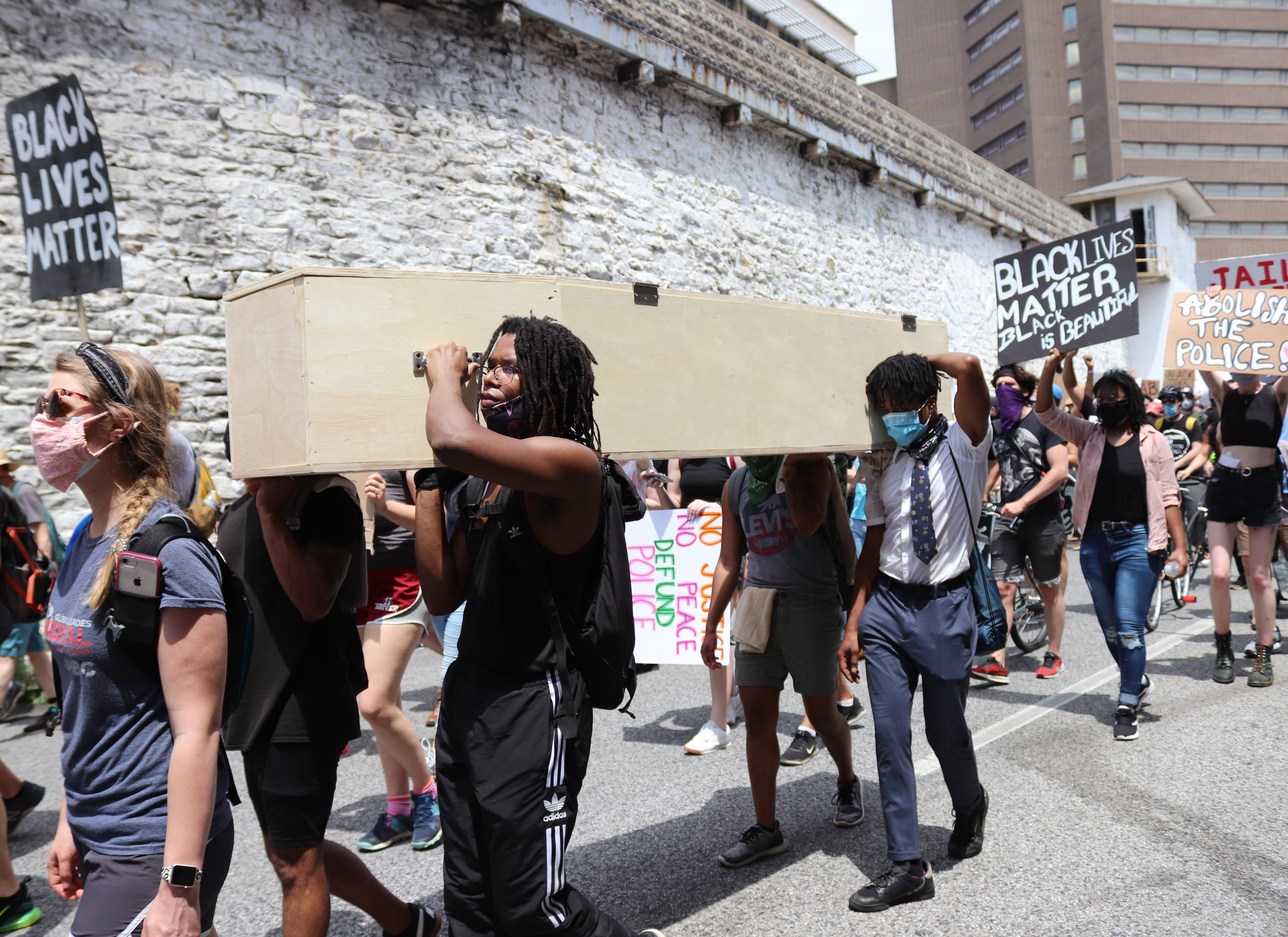 Peoples Power Assembly National Protest to STOP Peoples Power Assembly National Protest to STOP POLICE TERROR, RACISM & REPRESSION March along East Madison between Graves and Constitution Street in Baltimore, Maryland on Saturday afternoon, 6 June 2020 by Elvert Barnes Photography Follow People's Power Assembly Baltimore event page at Elvert Barnes Saturday PEOPLES POWER ASSEMBLY Protest at Elvert Barnes Corona Virus COVID-19 Pandemic Project at Elvert Barnes BMORE 2020 docu-project at